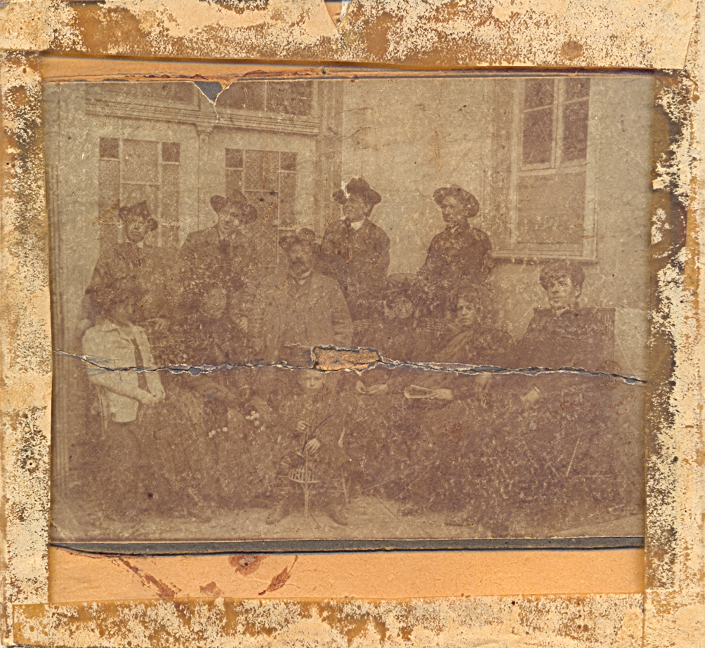 The theater of Anton Strashimirov (missing) and Stoyan Bachvarov (second left to right to the rear). 1909